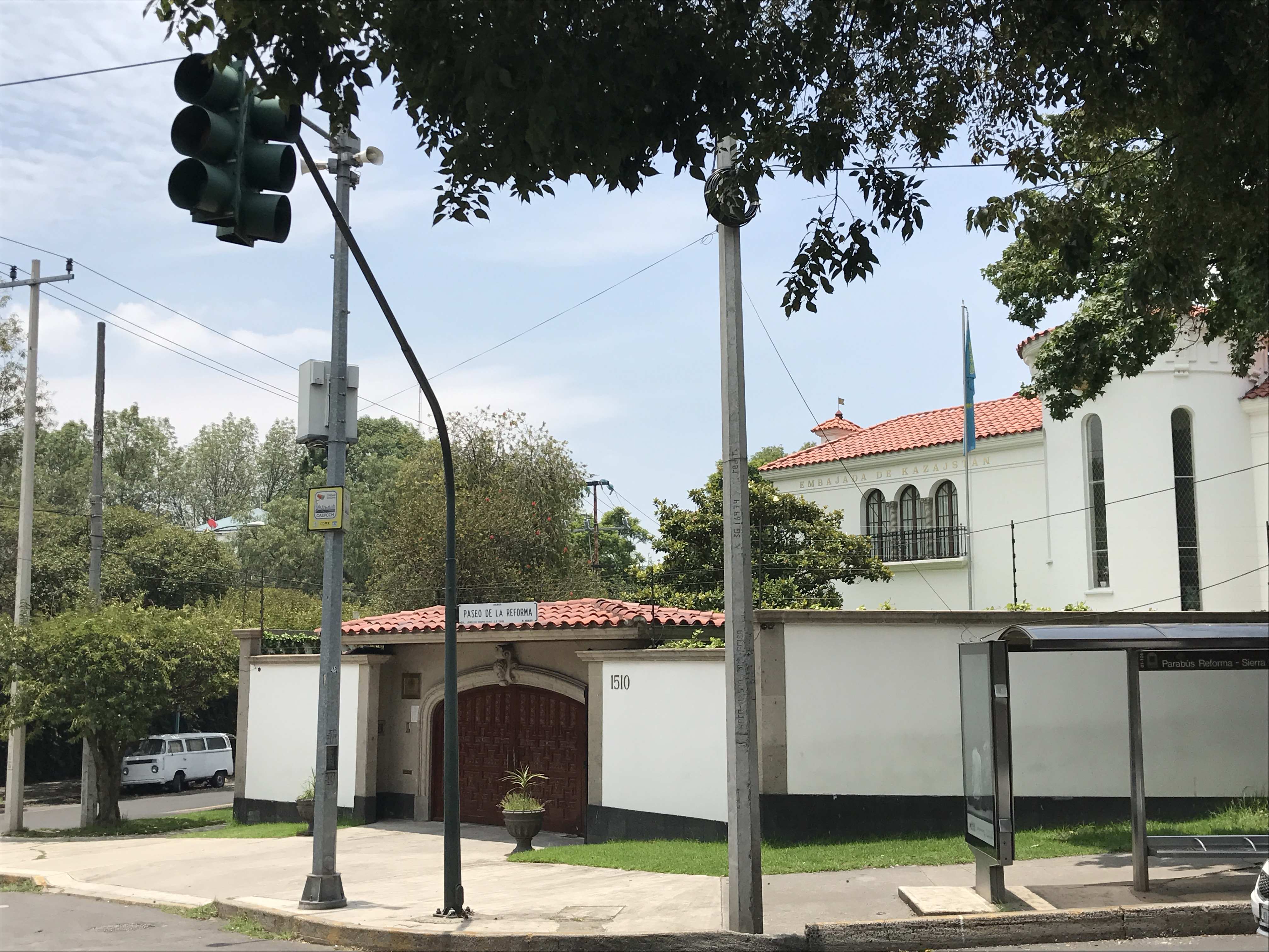 Embassy of Kazakhstan in Mexico City